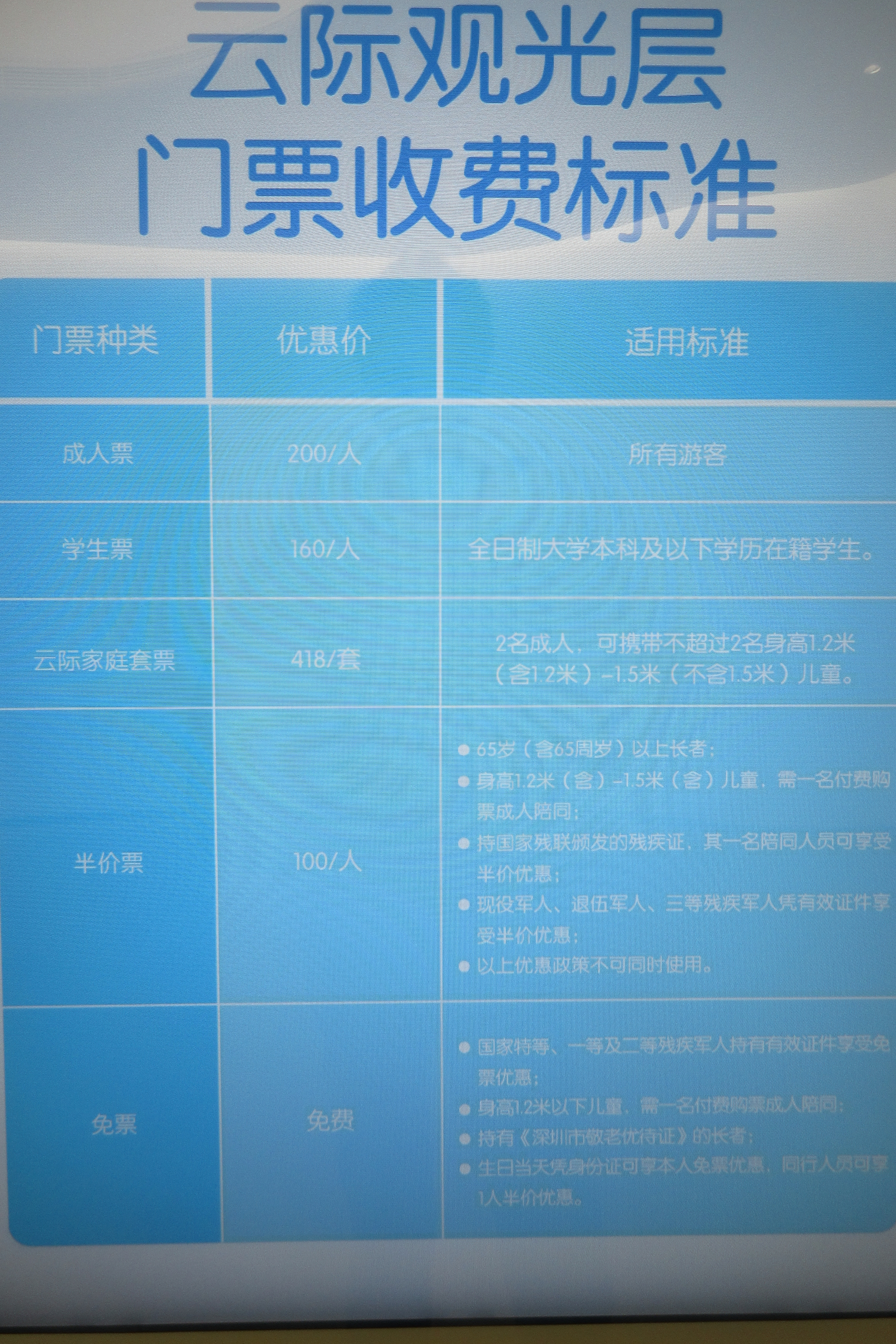 SZ 深圳市 Shenzhen 福田區 Futian 平安金融中心 FAFC 雲際觀光層 FreeSky box office April 2019